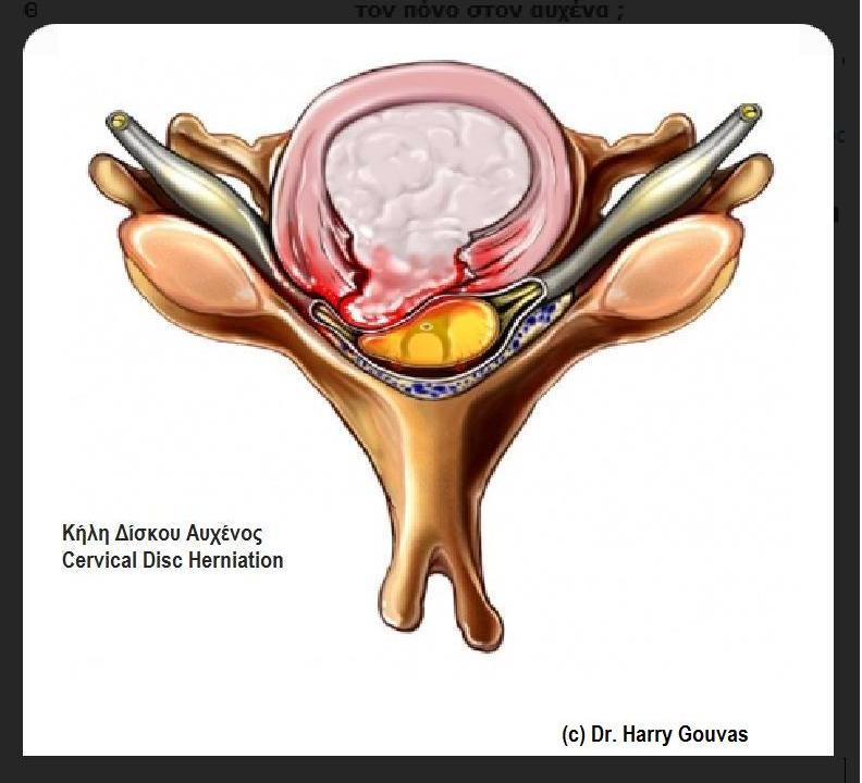 Cervical disk herniation